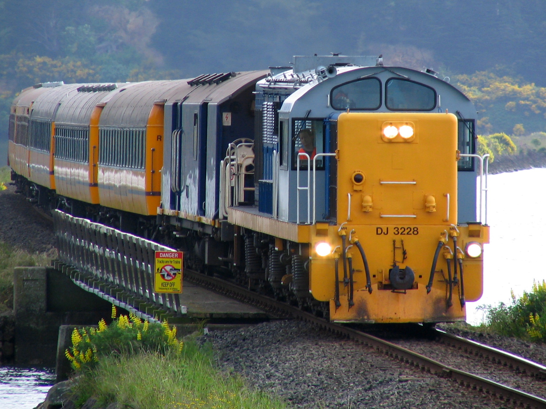 NZR DJ class locomotive DJ 3228 of the Taieri Gorge Railway travelling on the Main South Line from Port Chalmers towards Dunedin in New Zealand.